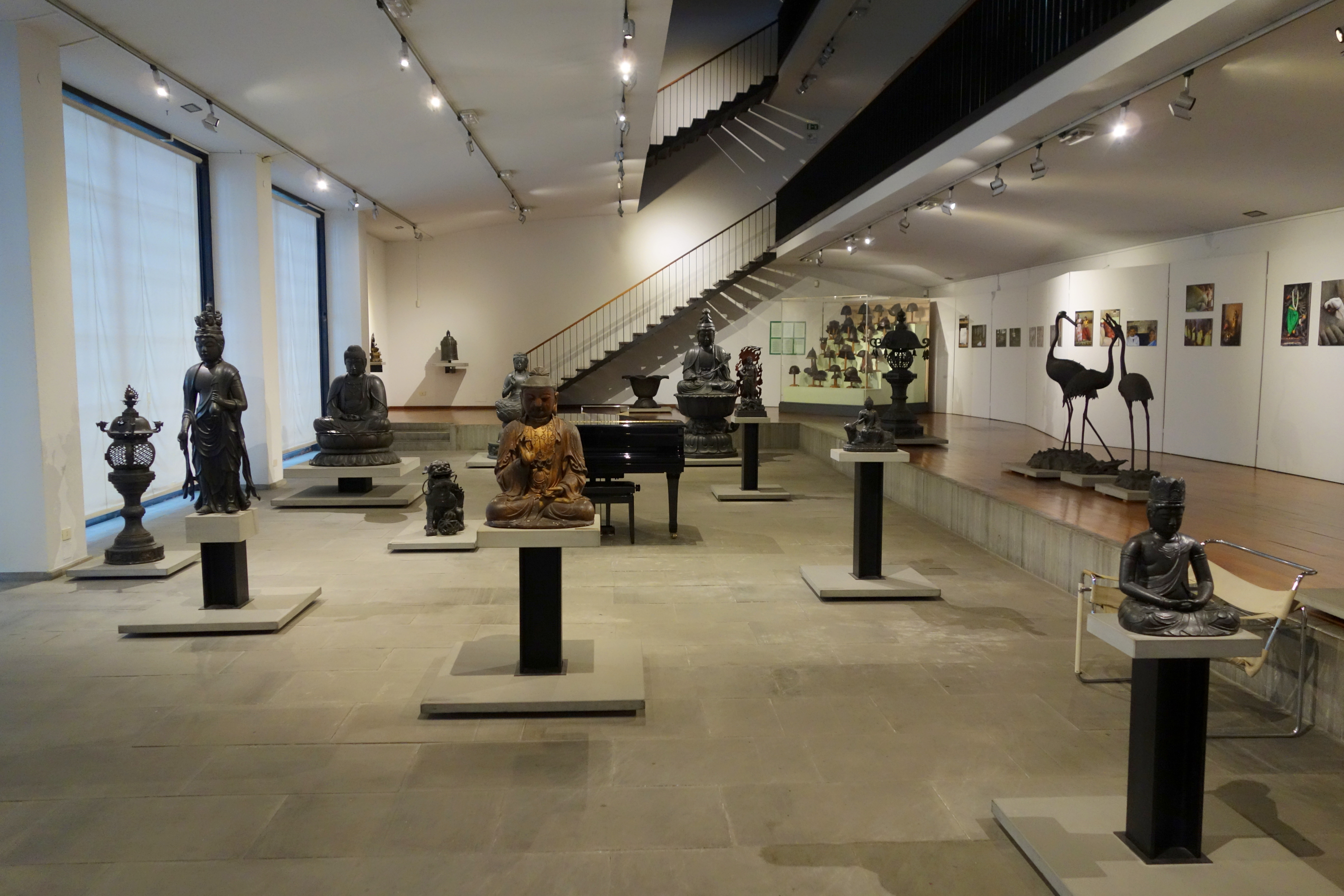 Exhibit in the Museo d'Arte Orientale Edoardo Chiossone, Piazzale Giuseppe Mazzini, 1, Genoa, Italy. This artwork is old enough so that it is in the public domain.